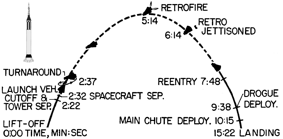 Suborbital flight by MR-3, 1961. Dashed line signifies zero gravity (except at retrofire)